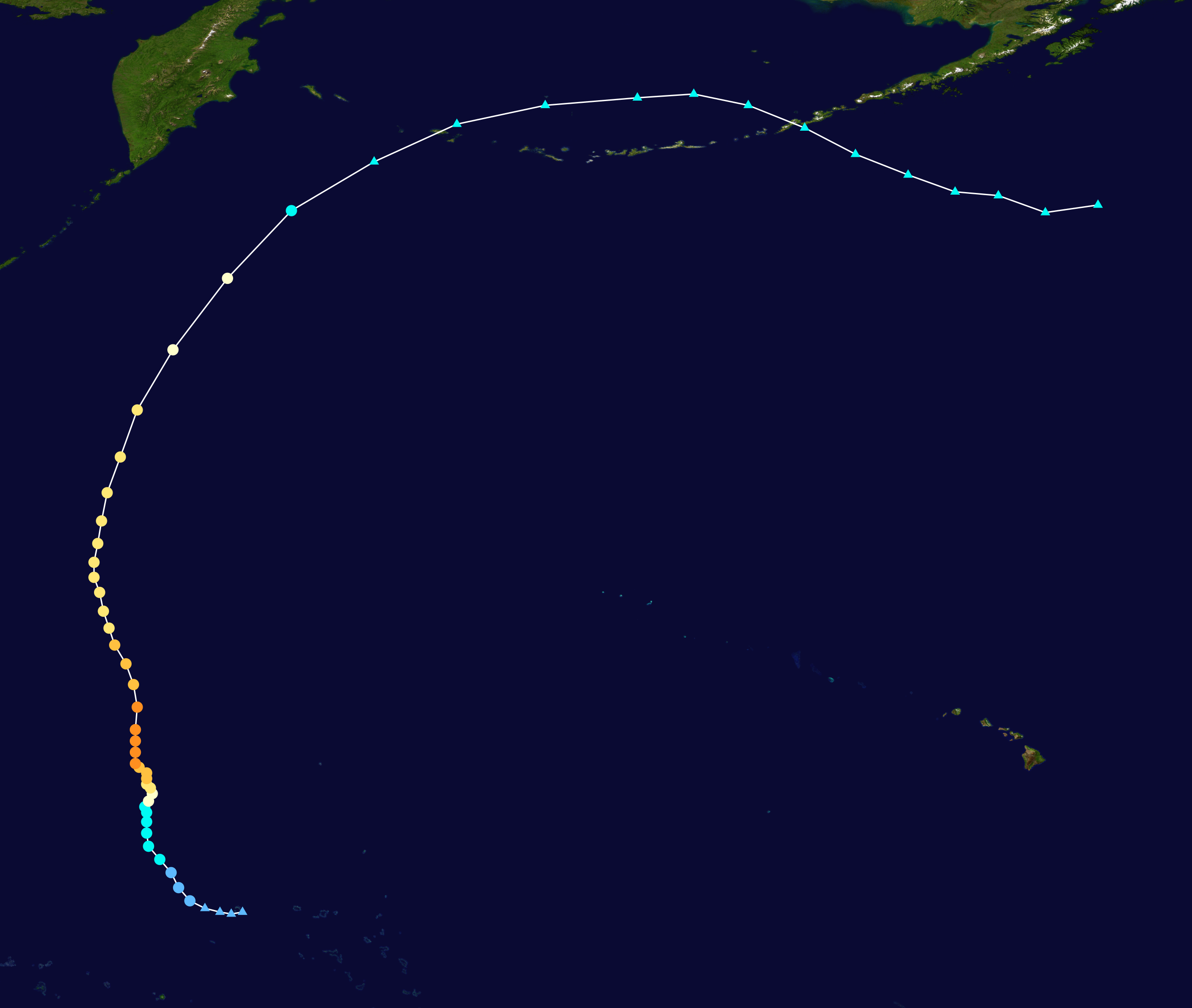 Track map of Typhoon Vamco of the 2009 Pacific typhoon season. The points show the location of the storm at 6-hour intervals. The colour represents the storm's maximum sustained wind speeds as classified in the Saffir–Simpson scale (see below), and the shape of the data points represent the nature of the storm, according to the legend below. Saffir–Simpson scale Tropical depression≤38 mph≤62 km/h Category 3111–129 mph178–208 km/h Tropical storm39–73 mph63–118 km/h Category 4130–156 mph209–251 km/h Category 174–95 mph119–153 km/h Category 5≥157 mph≥252 km/h Category 296–110 mph154–177 km/h Unknown Storm type Tropical cyclone Subtropical cyclone Extratropical cyclone / Remnant low / Tropical disturbance / Monsoon depression